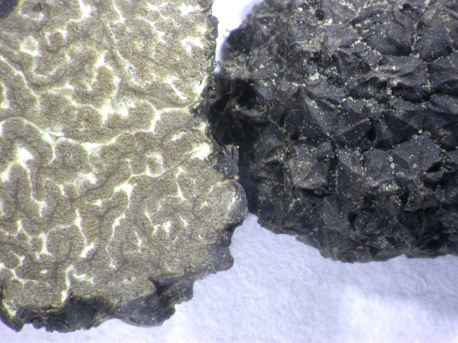 Tuber mesentericum Vittadini Image location: Tres Aguas, Refugio Forestal, Fresneda de la Sierra Tiron, Spain Christine Fischer, truffle researcher at the Forest Science Center of Catalonia, Spain, leads truffle and mushroom forays in Spain. These truffles were found using trained dogs. Christine identified the truffles and took the photos labeled T mesentericum (posted with her permission) in her laboratory. Tuber mesentericum Vittadini 1831 Peridium is black, warty with distinctive basal depression, ripening in the autumn, and found growing with deciduous trees in calcareous soils, especially in southern Europe. This truffle is closely related to and confused with T. aestivum/uncinatum, but distinguished by its basal depression or cavity. The odor is described as tar-like or of iodine, changing to a more pleasant and sweet odor when exposed to air. Gleba beige to brownish-grey with white marbling by sterile veins. Asci, with short peduncle, 1-6 spores/ascus, most frequently 3-4 spores/ascus Spores are yellow-brown, ellipsoid with reticulate ornamentation, and the spore volume/ascus is greater than that of T. aestivum. from Funghi Ipogei D’Europa Amer Montecchi & Mario Sarasini AMB Centro Studi Micologici Used references: Funghi Ipogei D’Europa Amer Montecchi & Mario Sarasini AMB Centro Studi Micologici Based on chemical features: Christine Fischer says that T mesentericum has an odor that shifts from tar-like to fruity once exposed to air. For more information about this, see the observation page at Mushroom Observer.